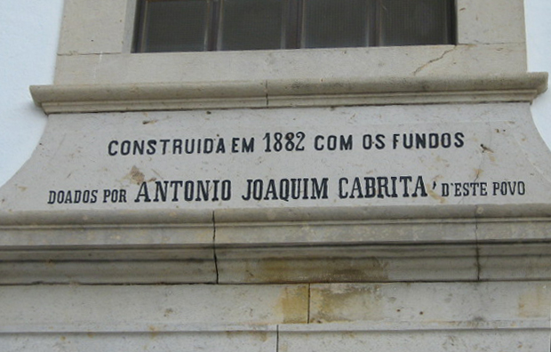 Igreja Matriz, Porches (Lagoa), Algarve, Portugal, inscription.